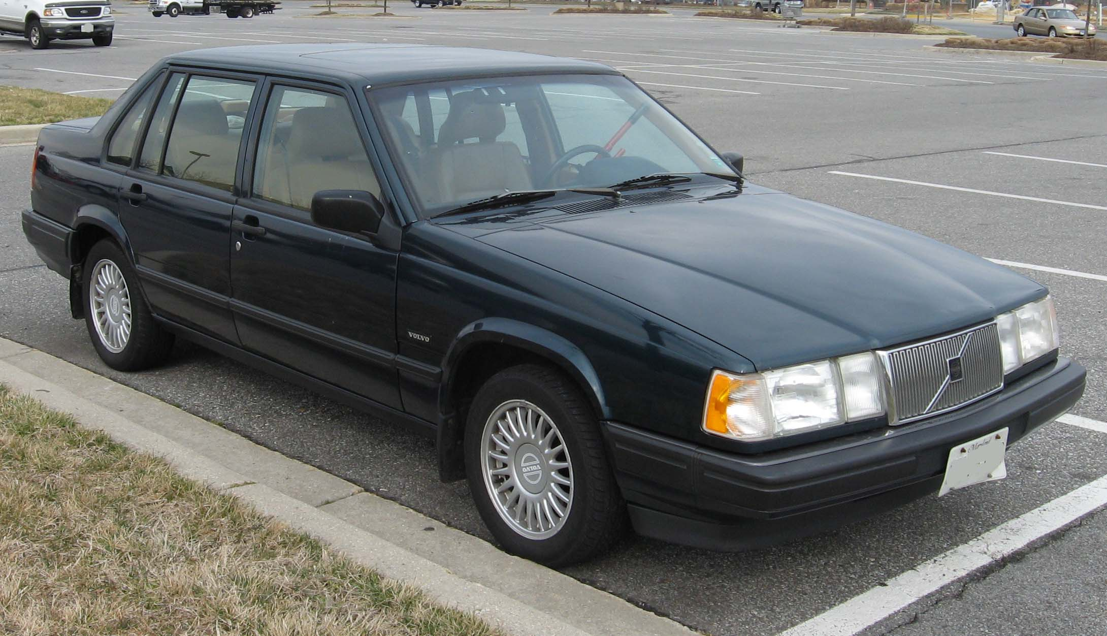 Volvo 940 photographed in USA.